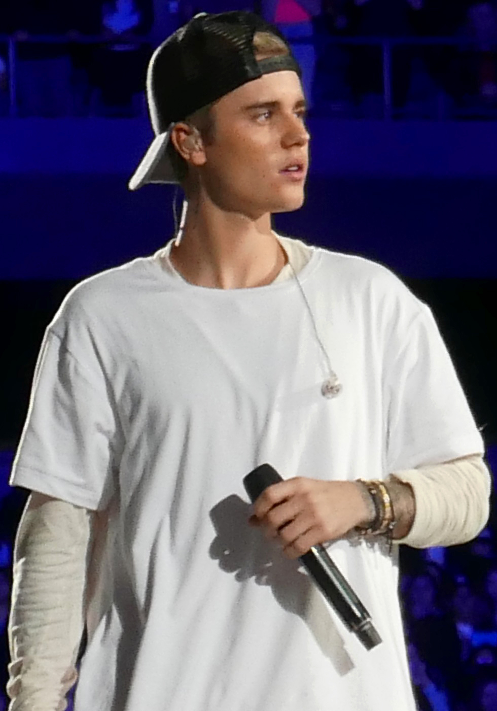 “An Evening with Justin Bieber”, Allstate Arena, Rosemont, IL, 11/18/15